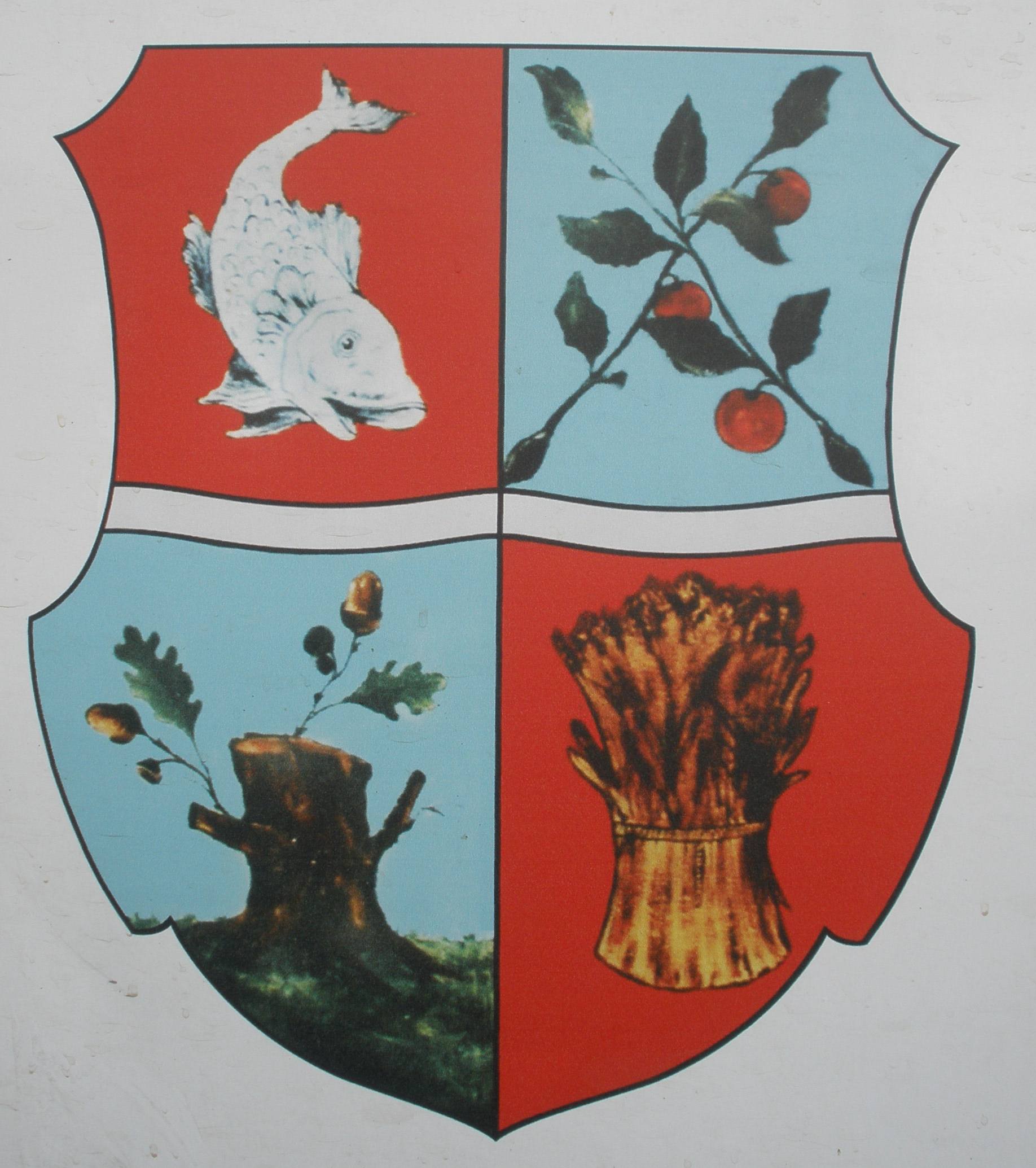 Coat of Arms of Tysaashvan